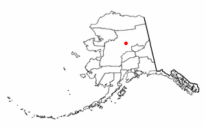 Adapted from Wikipedia's AK borough maps by Seth Ilys.